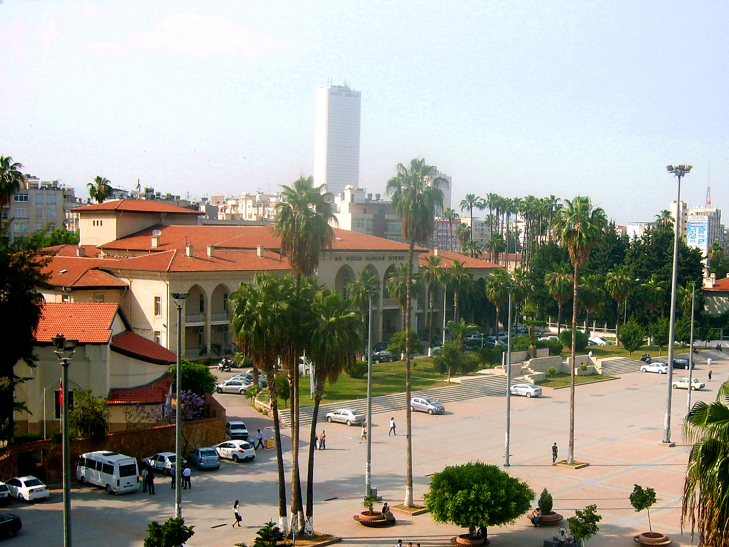 Mersin Halevi buiding from west